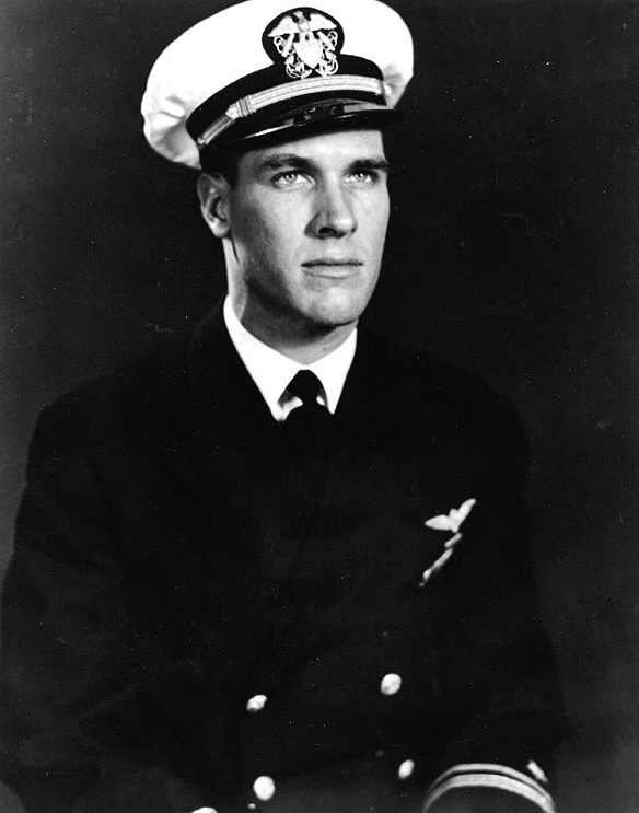 Lieutenant (Junior Grade) Thomas J. Hudner, Jr., USN. He was awarded the Medal of Honor for heroically attempting to rescue Ensign Jesse L. Brown, who had been shot down by enemy fire near the Chosin Reservoir, North Korea, on 4 December 1950.